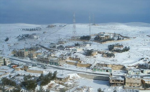 Wniter in Shoubak